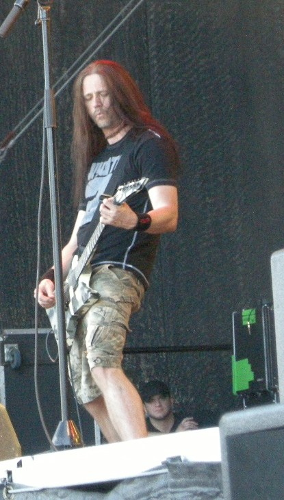 Patrik Jensen, guitar player of Swedish thrash metal band The Haunted, at Metaltown 2009